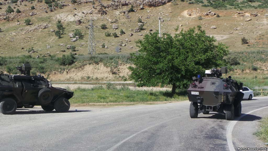 Turkish Armed Forces vehicles